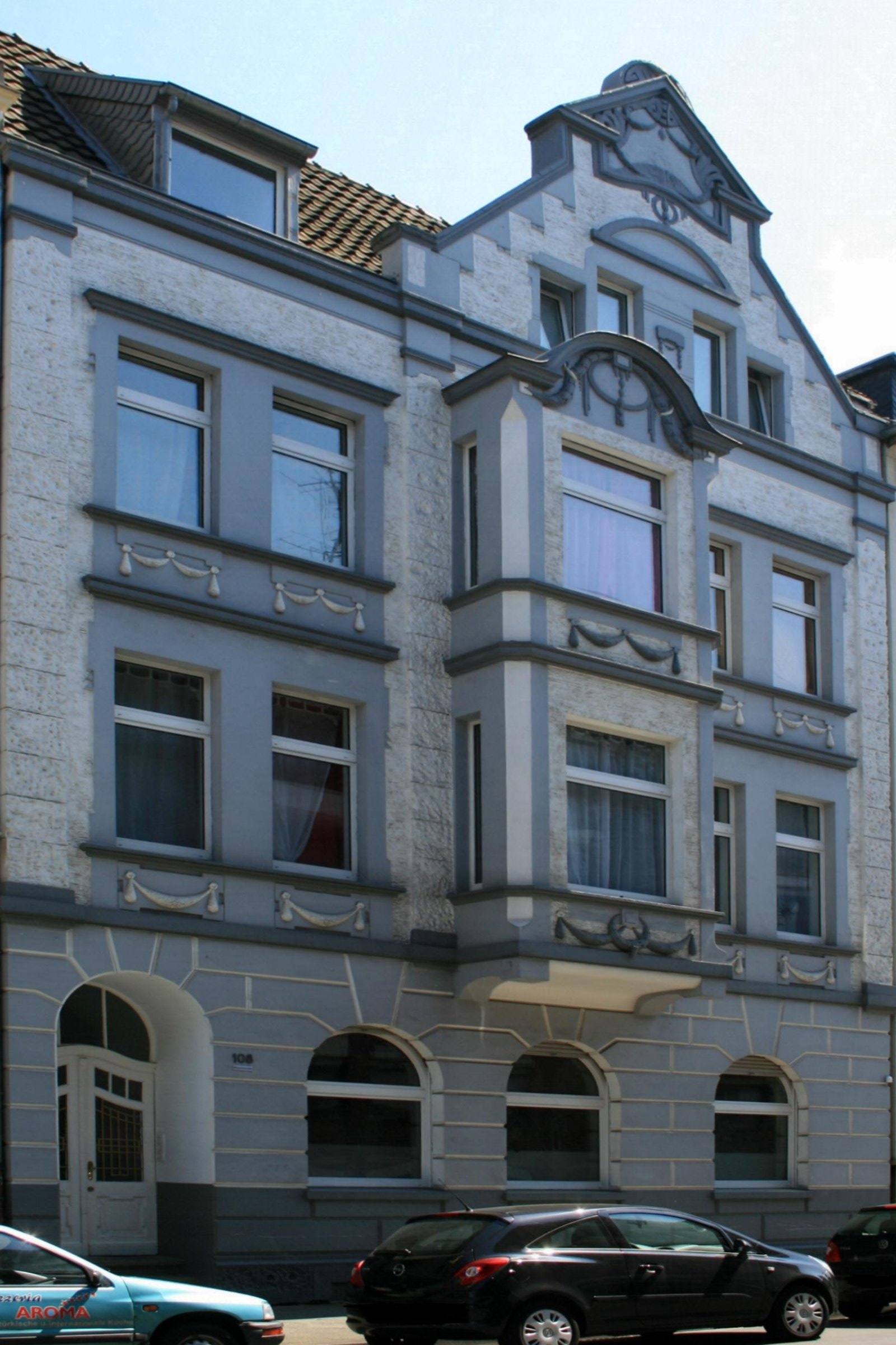 Cultural heritage monument No. R 059 in Mönchengladbach